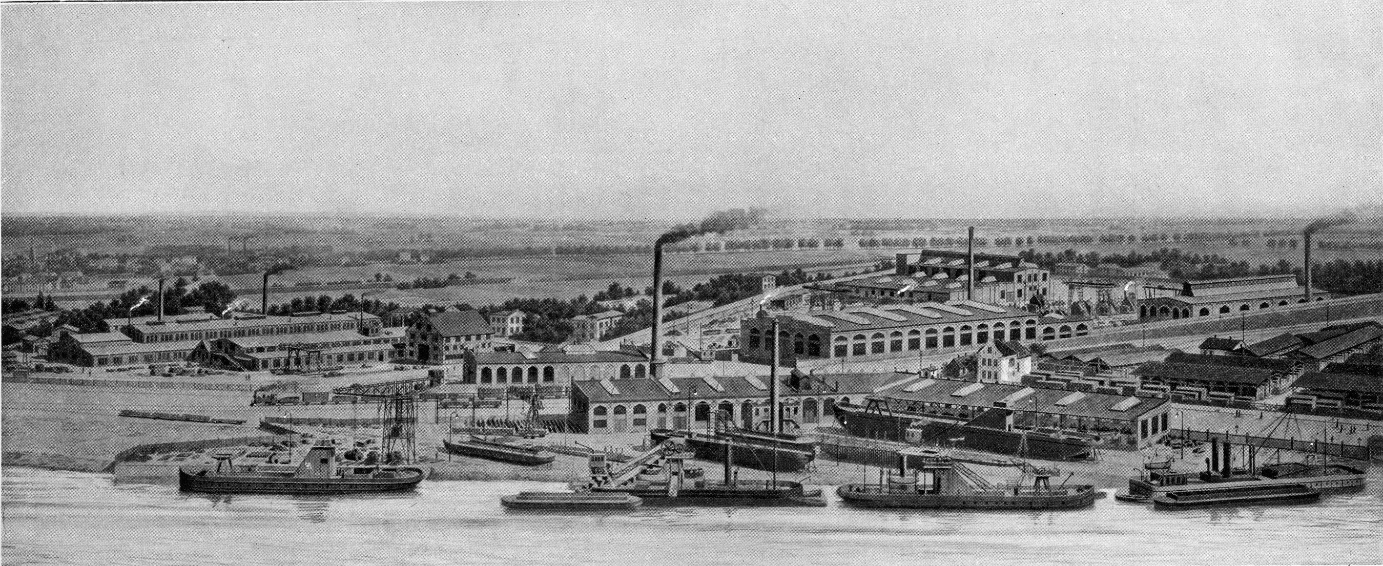 Shipyard and factory of Orenstein & Koppel company at Lübeck, Germany. Image published in 1913.